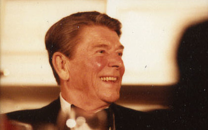 Reagan Photo Contact Sheet. Featured: President Reagan, Nancy Reagan, Donald Trump, Ivana Trump, Sigourney Weaver, King Fahd bin 'Abd al-'Aziz Al Sa'ud, (Not in all Photos). Blue Room, White House, Washington, D.C.